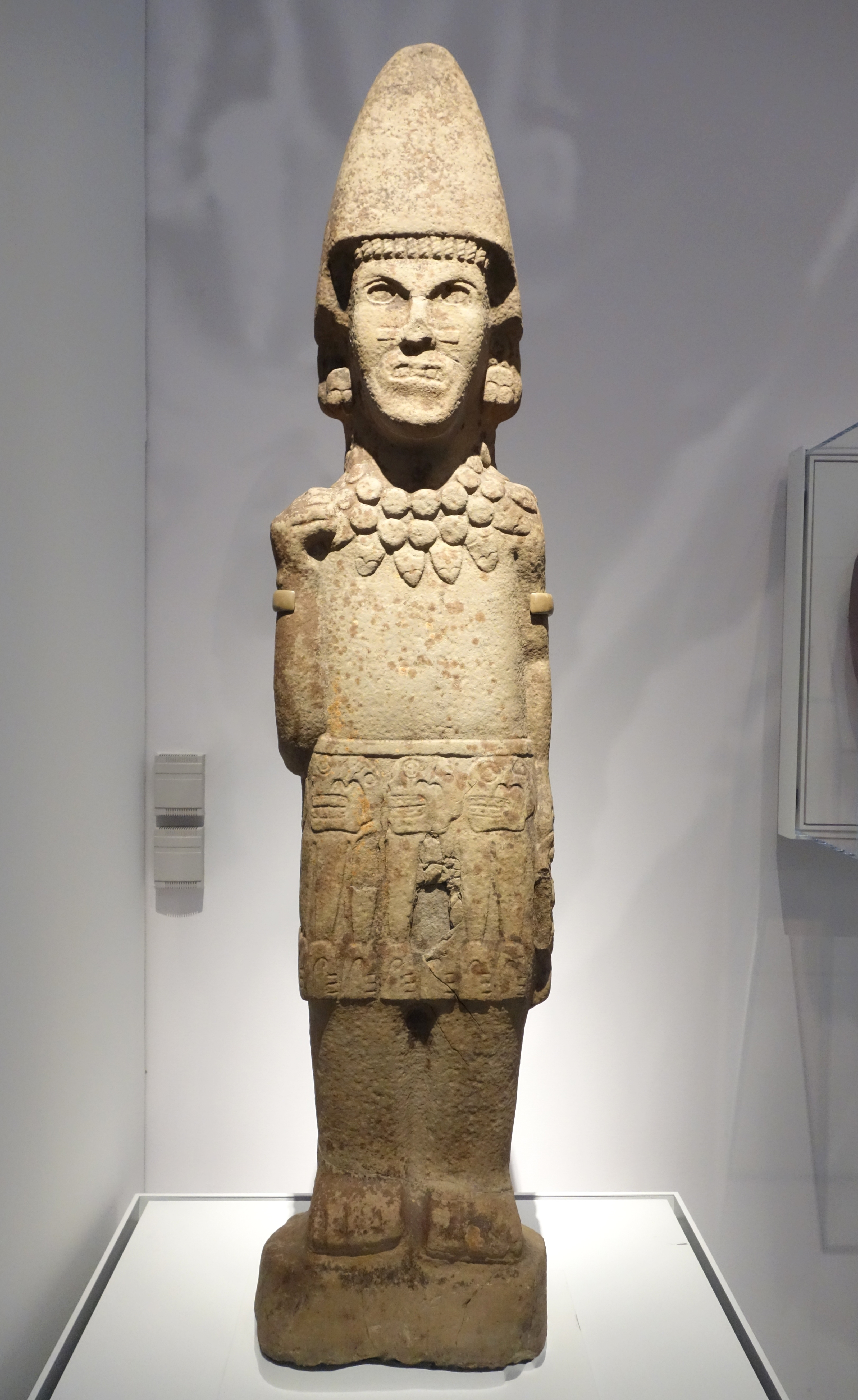 Exhibit in the Brooklyn Museum - Brooklyn, New York, USA. This artwork is in the public domain because the artist died more than 70 years ago.